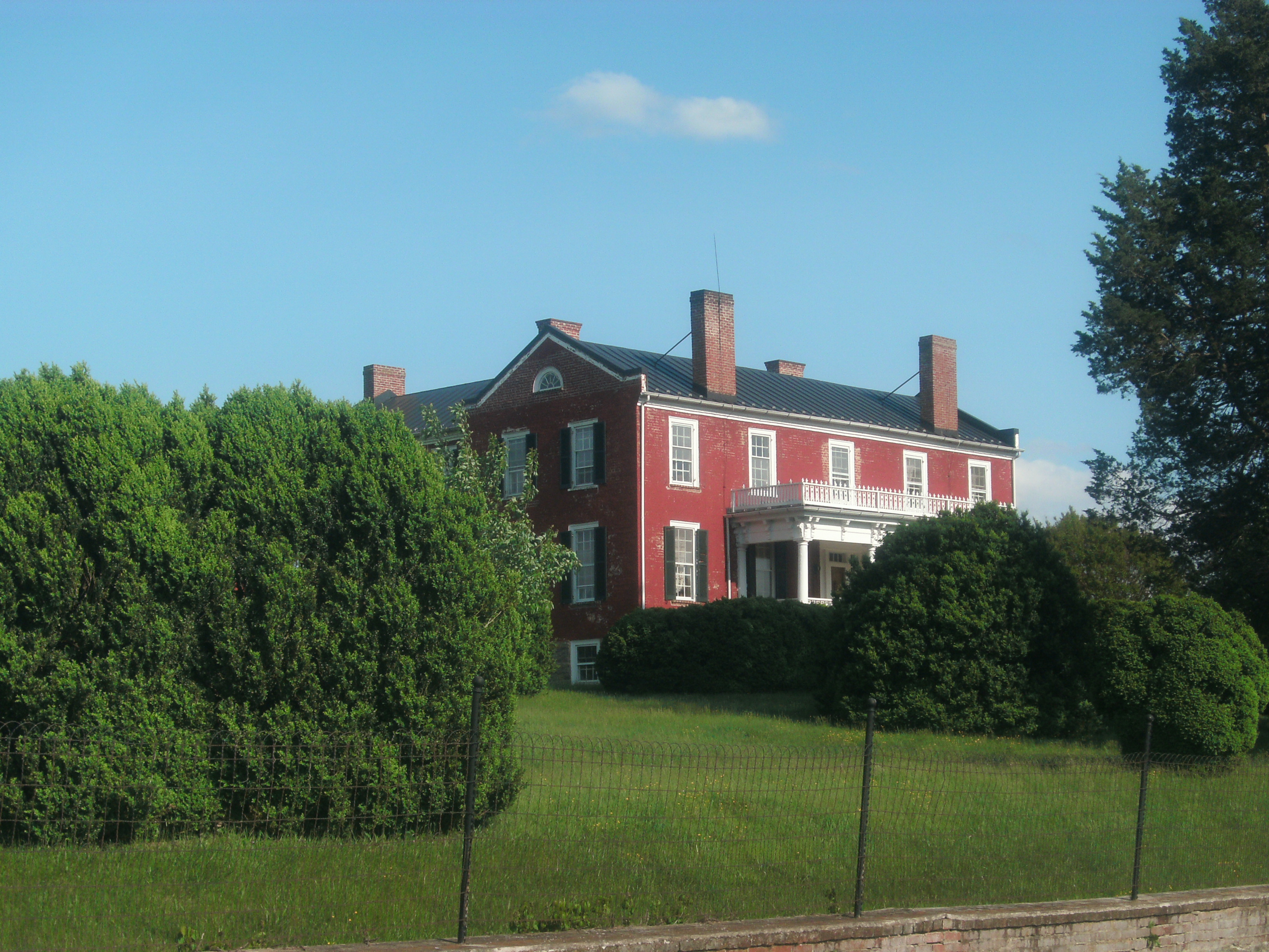 Taken by me in May, 2016 GEDSC DIGITAL CAMERA